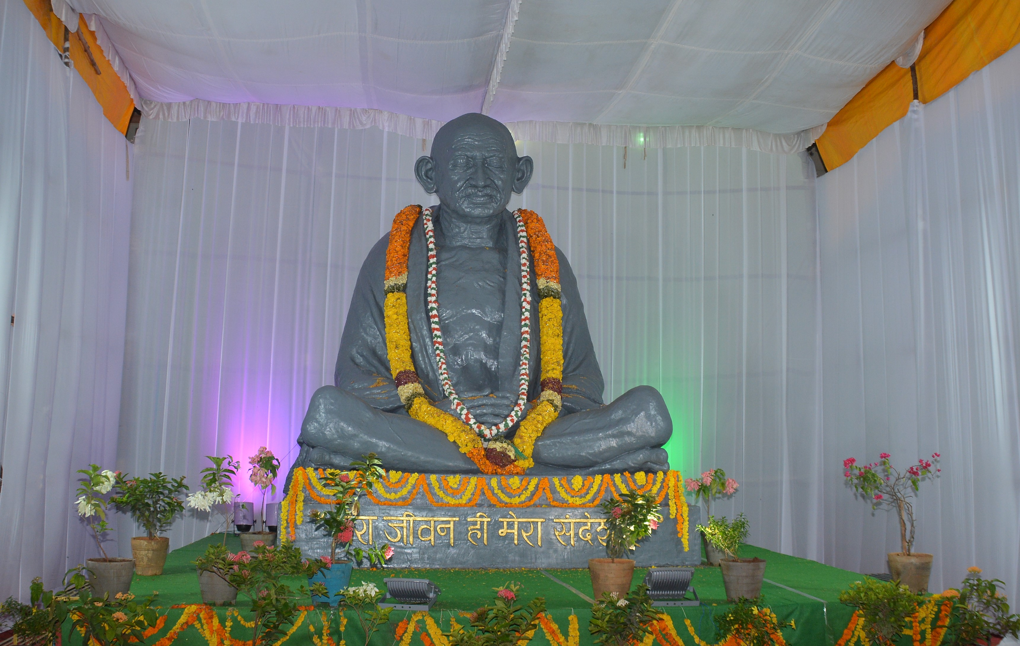 Gandhi statue at Ghantasala Music college Vijayawada, tentative, Gandhi Jayanti 2018